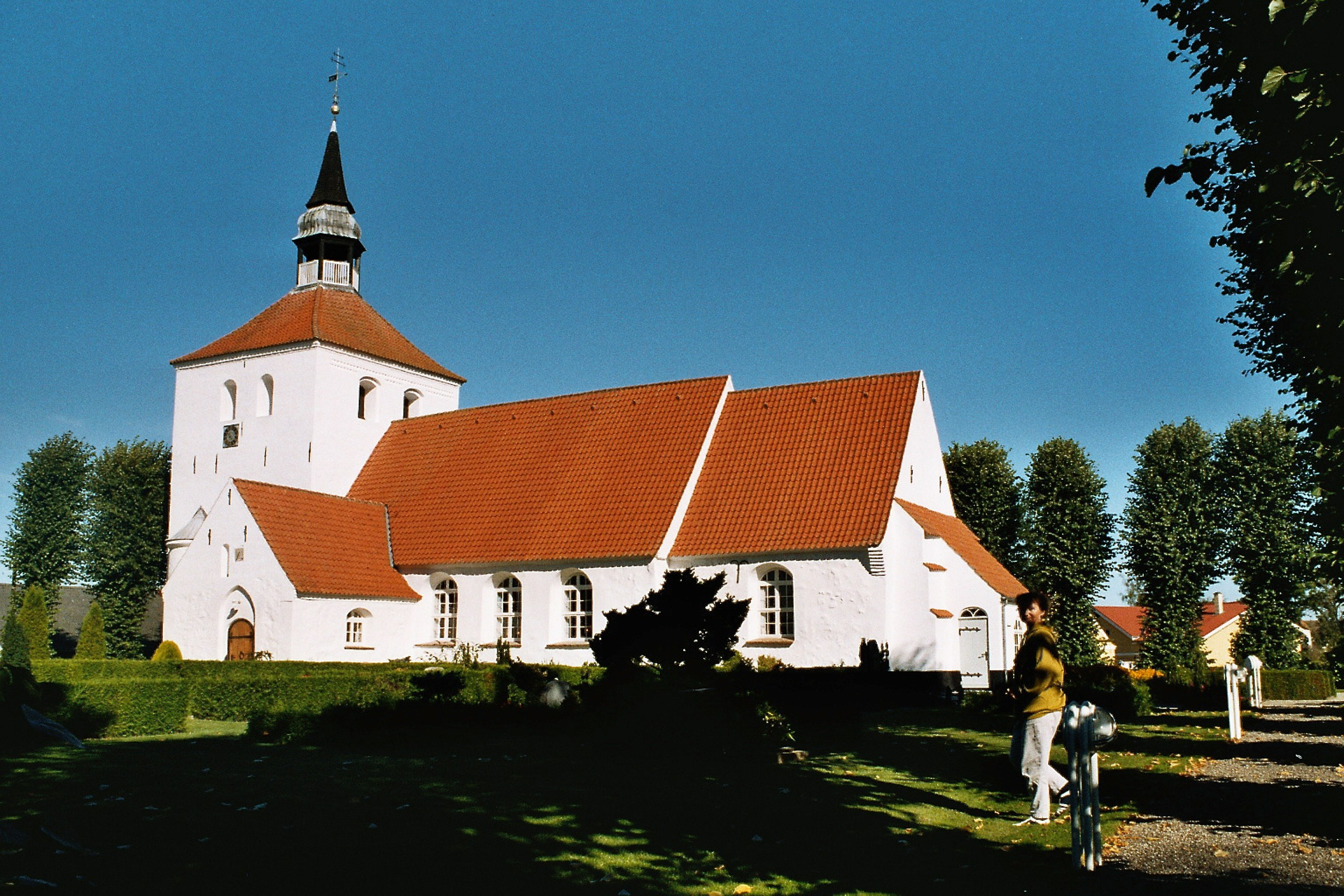 Oksbøl (Als island), the village church and the churchyard